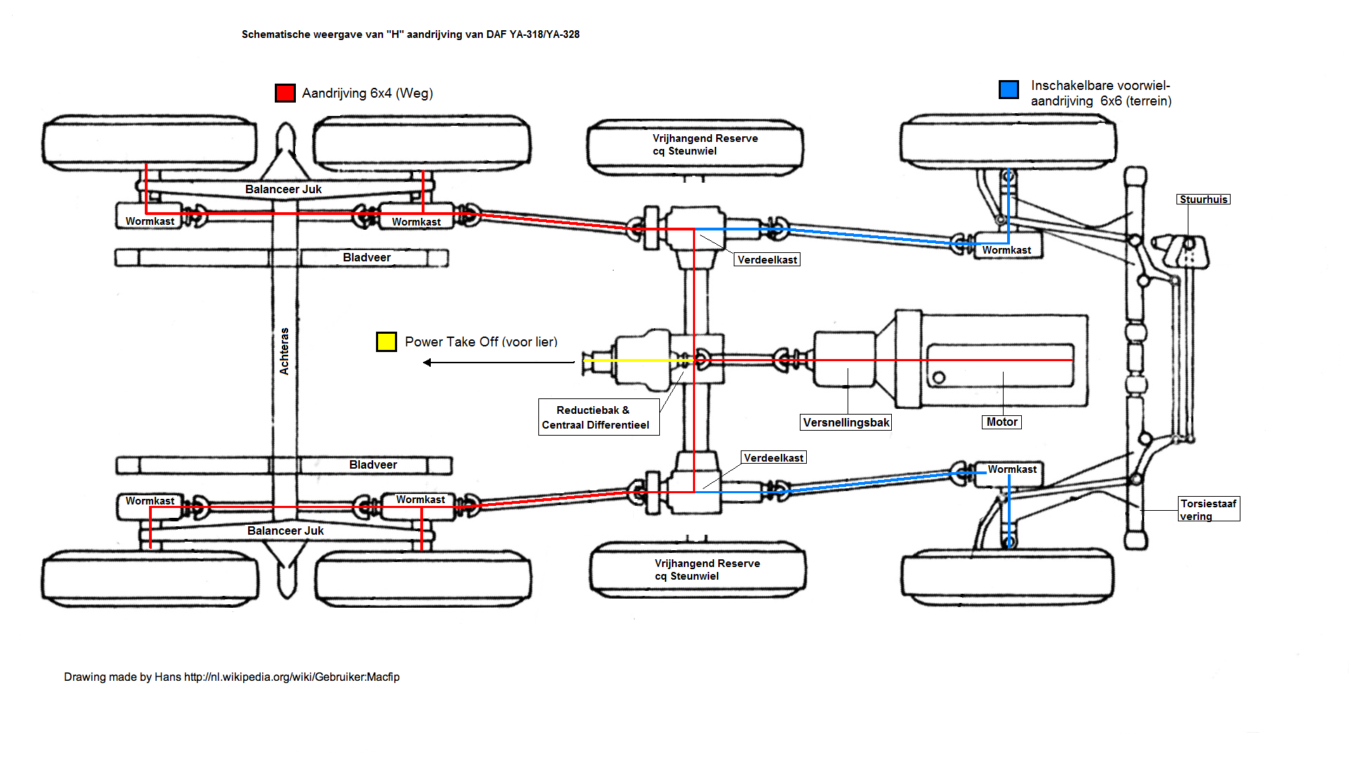 This is a schematic drawing of the rare drivetrain from a DAF YA318/ DAF YA328 all terrain truck